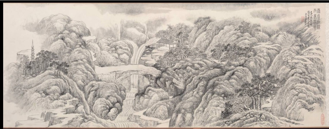 Rain-coming Pavilion by the Stone Bridge at Mt. Tiantai, 1848, Handscroll, Ink on paper, 34.5cm height, Cleveland Museum of Art